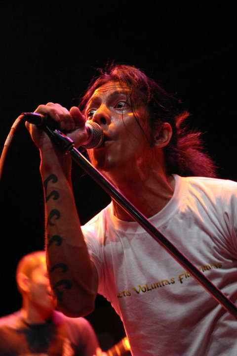 Filipino rock singer Karl Roy singing with his band Kapatid as part of Rock Aid, at the Folk Arts Theater in Pasay City, Manila.